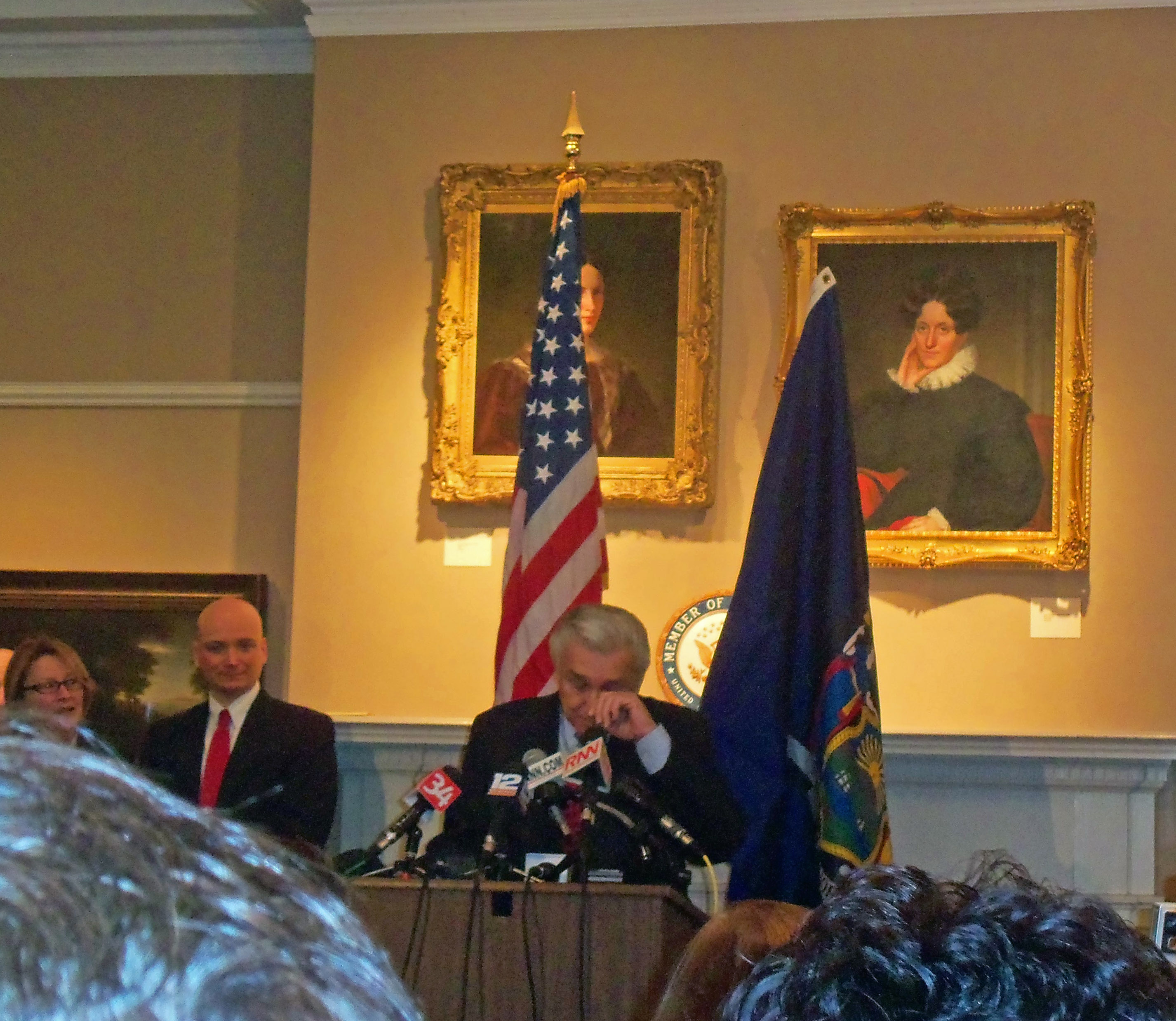 U.S. Rep. Maurice Hinchey announces his retirement at Senate House, Kingston, NY, USA